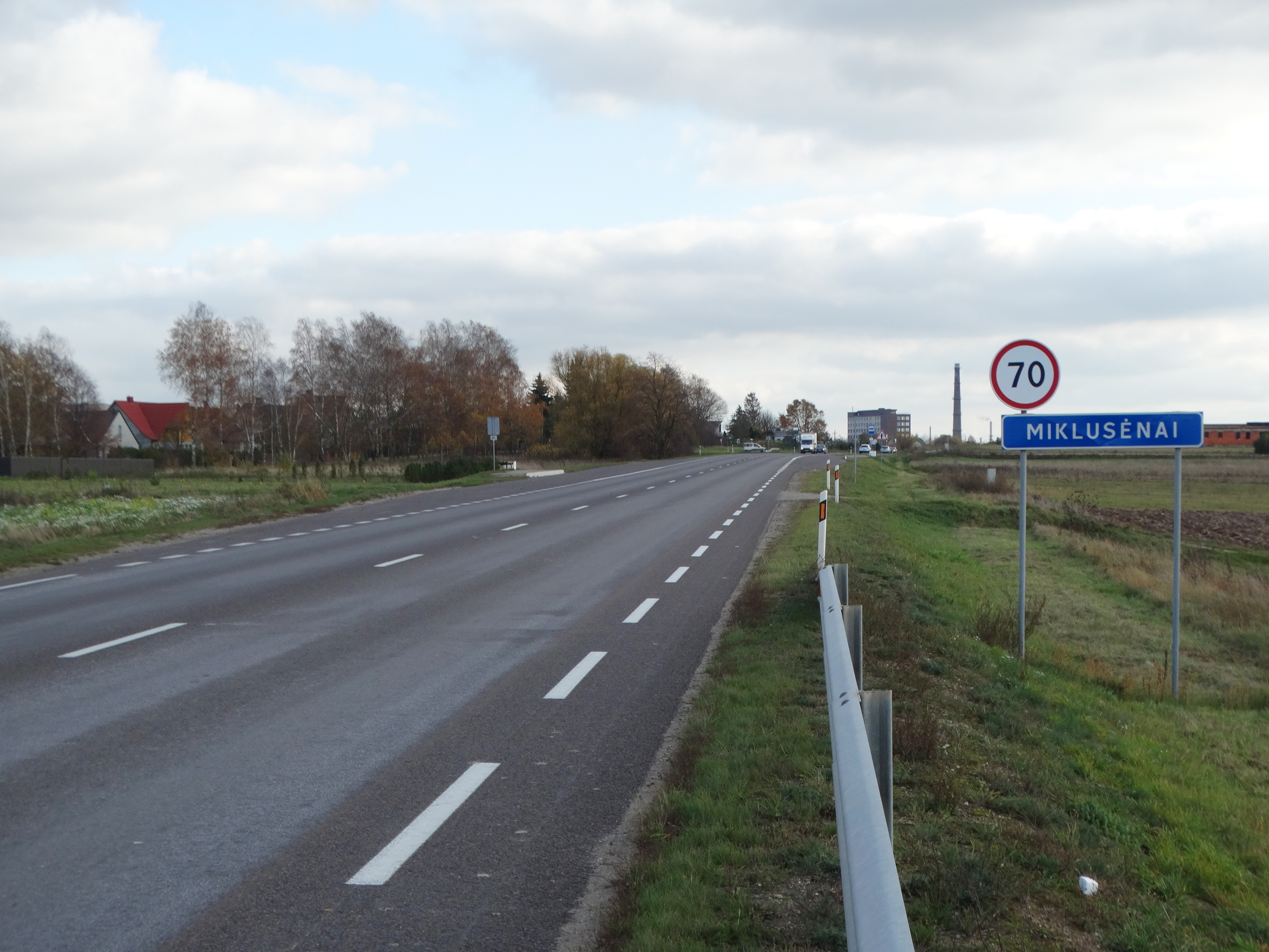 Miklusėnai, Alytus district, Lithuania